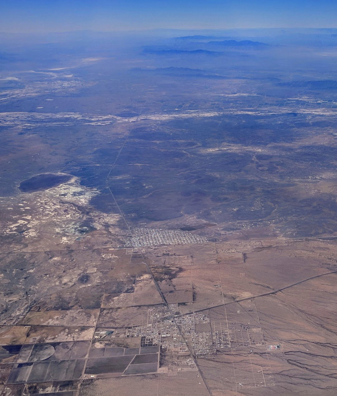 Columbus, New Mexico, United States (foreground), and Puerto Palomas, Chihuahua, Mexico (center), looking south. The border runs left–right, along the near edge of Palomas.